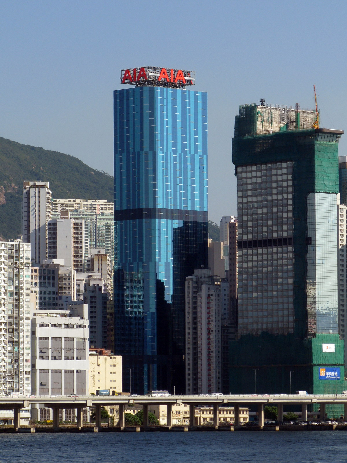 AIA Tower